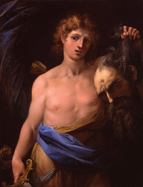 David with the Head of Goliath